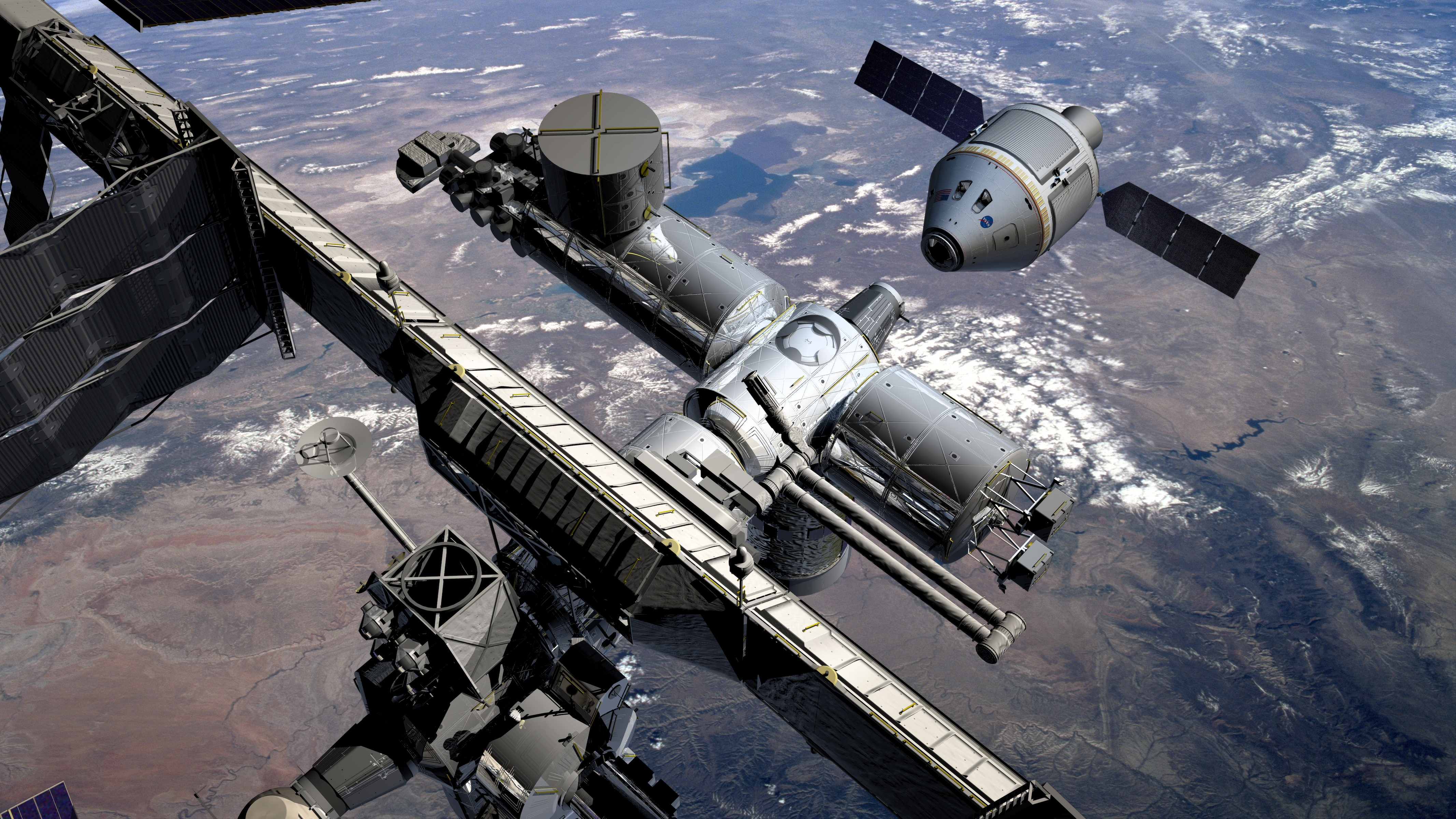 The CEV spacecraft docks to the International Space Station